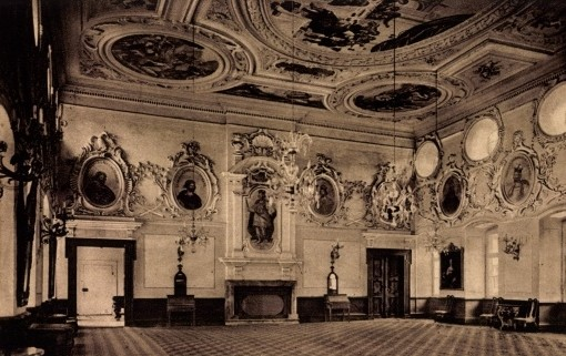 Many imperial abbeys such as Corvey had a kaisersaal, a lavish ceremonial hall replete with imperial iconography intended to show their attachment to the Emperor, their only overlord. The abbot of Corvey was a Prince of the Empire with seat and vote in the Reichstag. Postcard published circa 1900-1910.